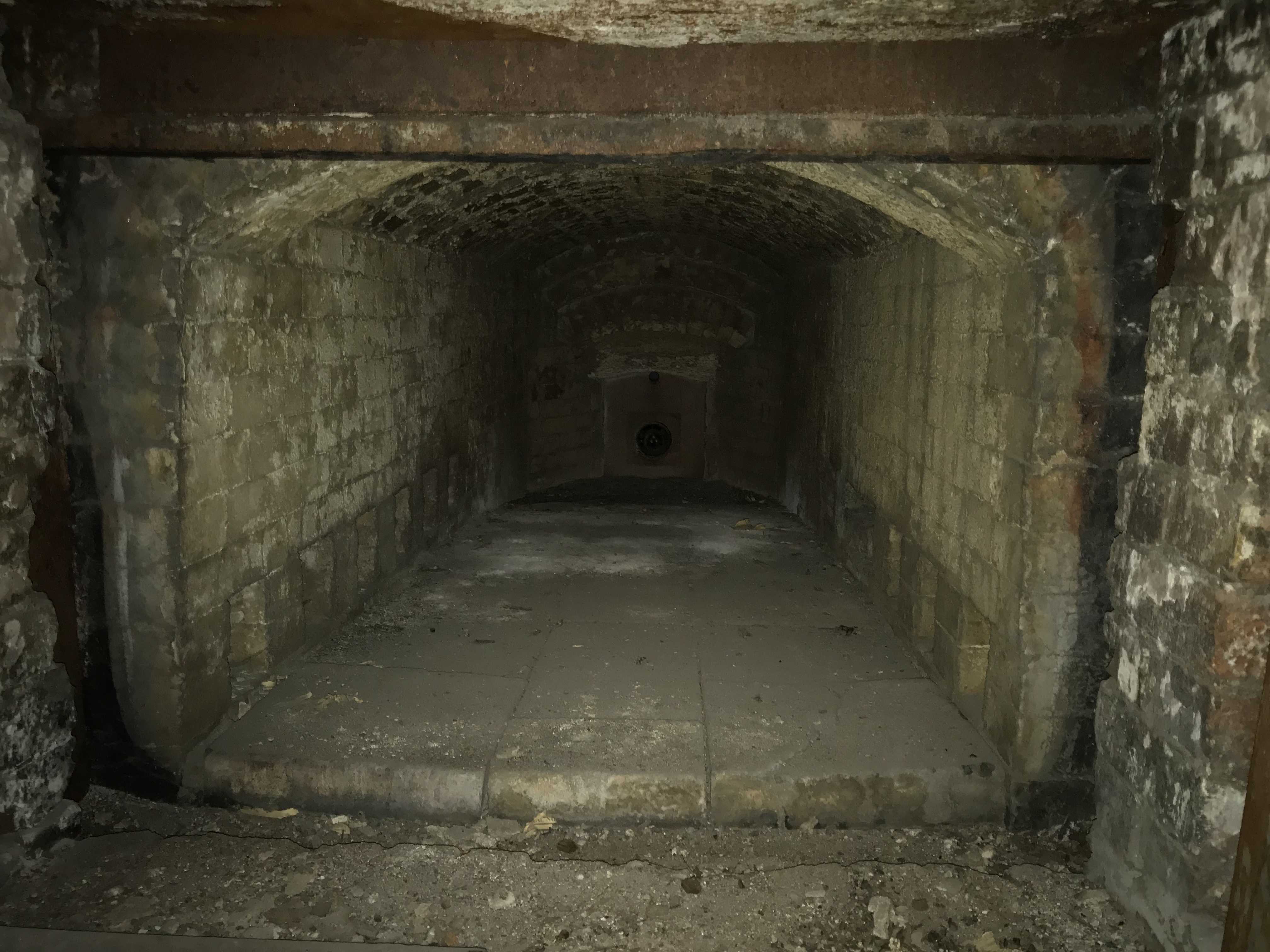 Incinerator Edbrooke, Frank E.; Lowrie, Harvey C.